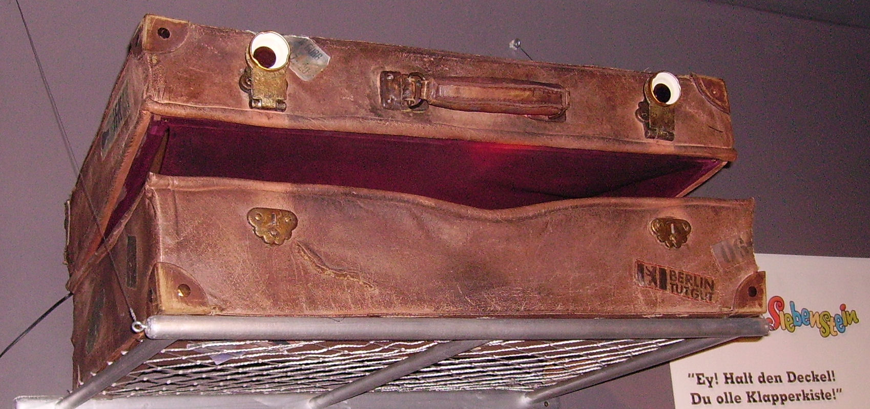 Augsburger Puppenkiste